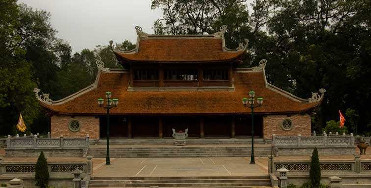 Reconstructed Vong Cung (Hanh Cung) palace in the Son Tay citadel